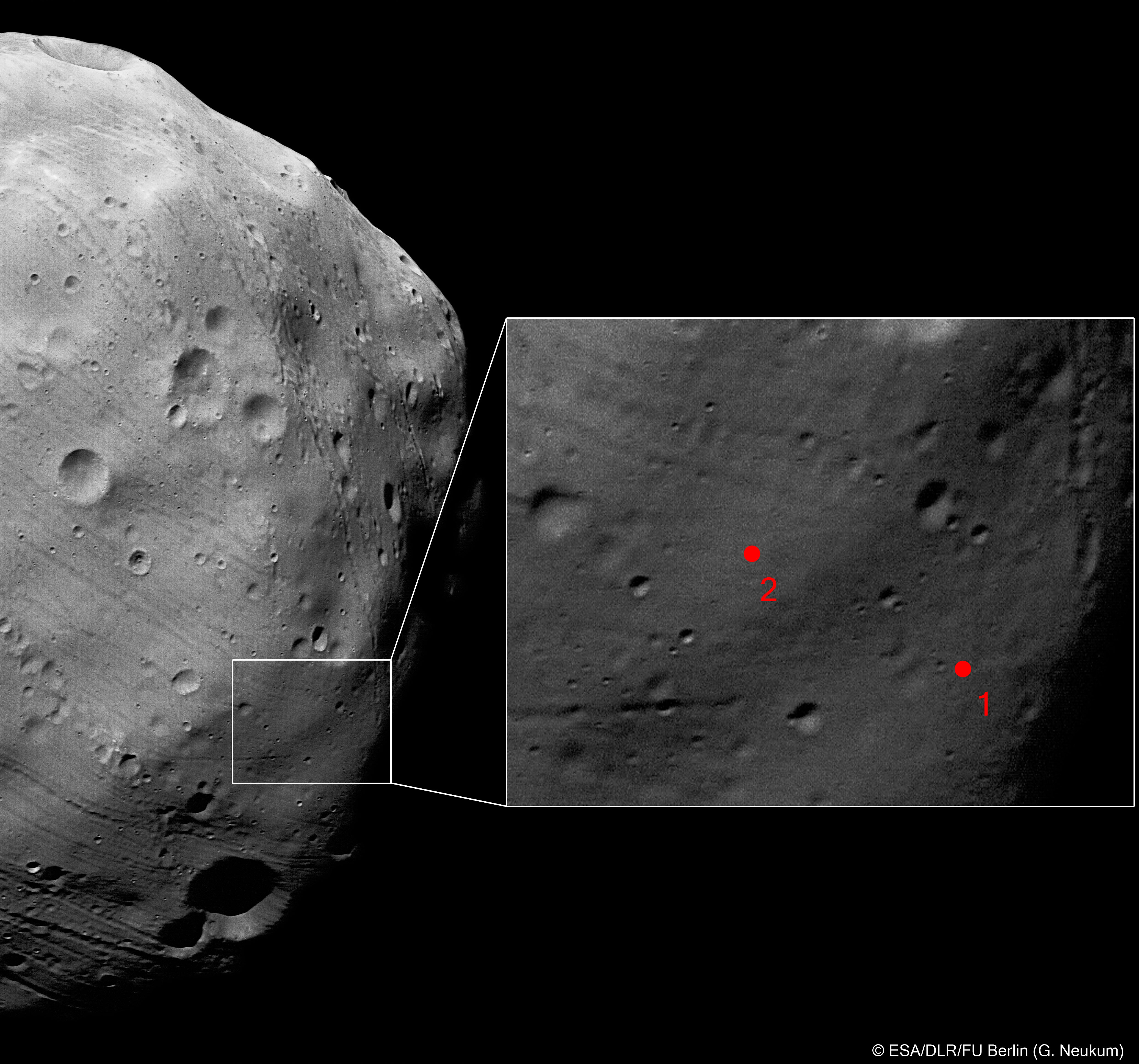 The High Resolution Stereo Camera (HRSC) on board ESA's Mars Express spacecraft took this image of the Phobos-Grunt's possible landing area. Phobos-Grunt is a planned Russian sample-return mission to Phobos, one of the moons of Mars, scheduled for launch in 2011 or early 2012. This image was taken on 7 March 2010 with a resolution is 4.4m per pixel and the inset marks the proposed landing region and sites for Phobos-Grunt. Launched on 2 June 2003, Mars Express was the first fully European mission to any planet. It is an exciting challenge for European technology and is playing a key role in an international exploration programme spanning two decades. For Credit: ESA/DLR/FU Berlin (G. Neukum), CC BY-SA 3.0 IGO Copyright Notice: This work is licenced under the Creative Commons Attribution-ShareAlike 3.0 IGO (CC BY-SA 3.0 IGO) licence. The user is allowed to reproduce, distribute, adapt, translate and publicly perform this publication, without explicit permission, provided that the content is accompanied by an acknowledgement that the source is credited as 'ESA/DLR/FU Berlin’, a direct link to the licence text is provided and that it is clearly indicated if changes were made to the original content. Adaptation/translation/derivatives must be distributed under the same licence terms as this publication. To view a copy of this license, please visit